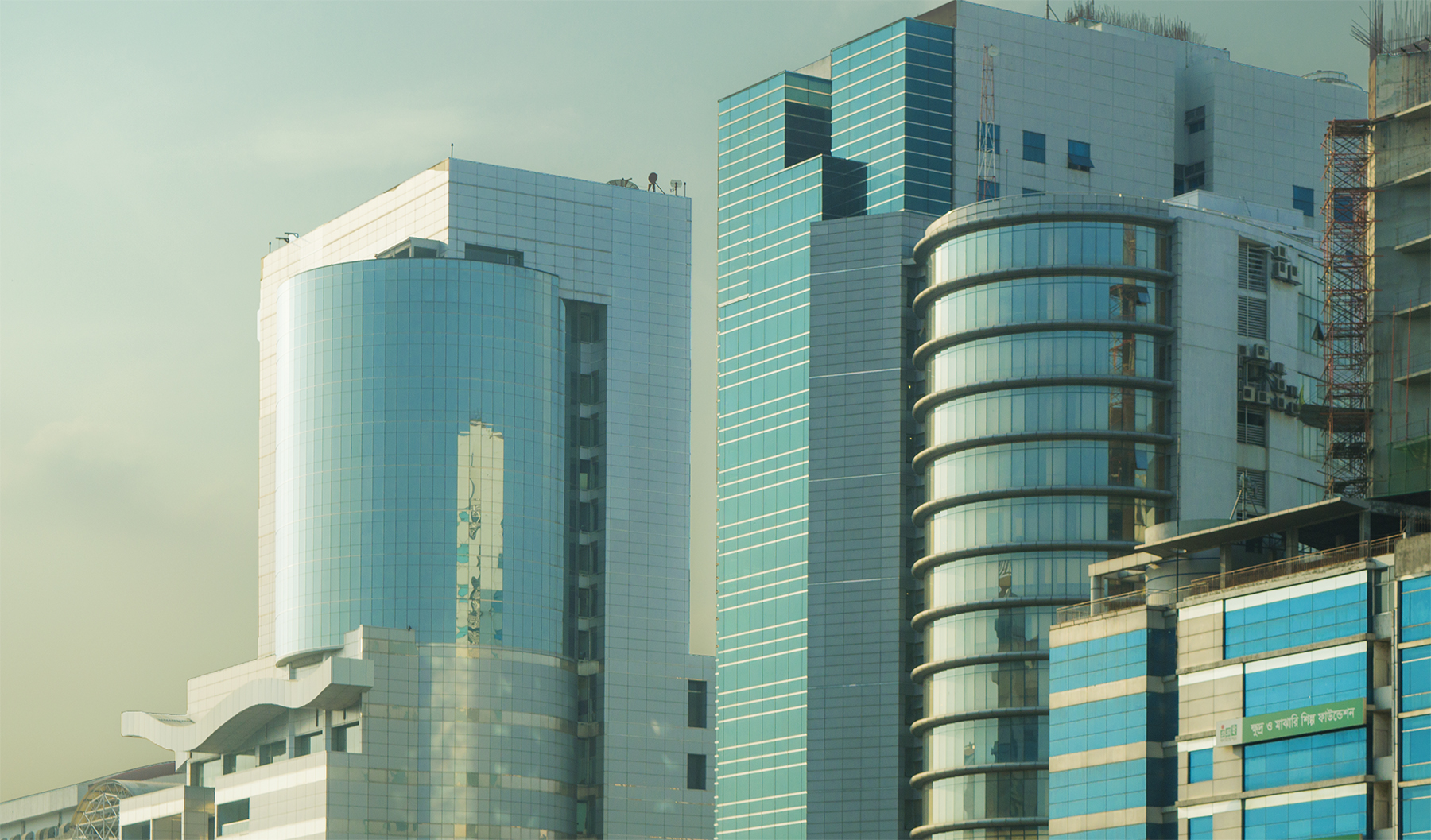 Buildings around Bashundhara City mall in Dhaka